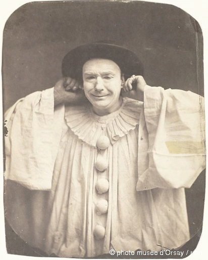 Photo by Nadar of Paul Legrand as Pierrot